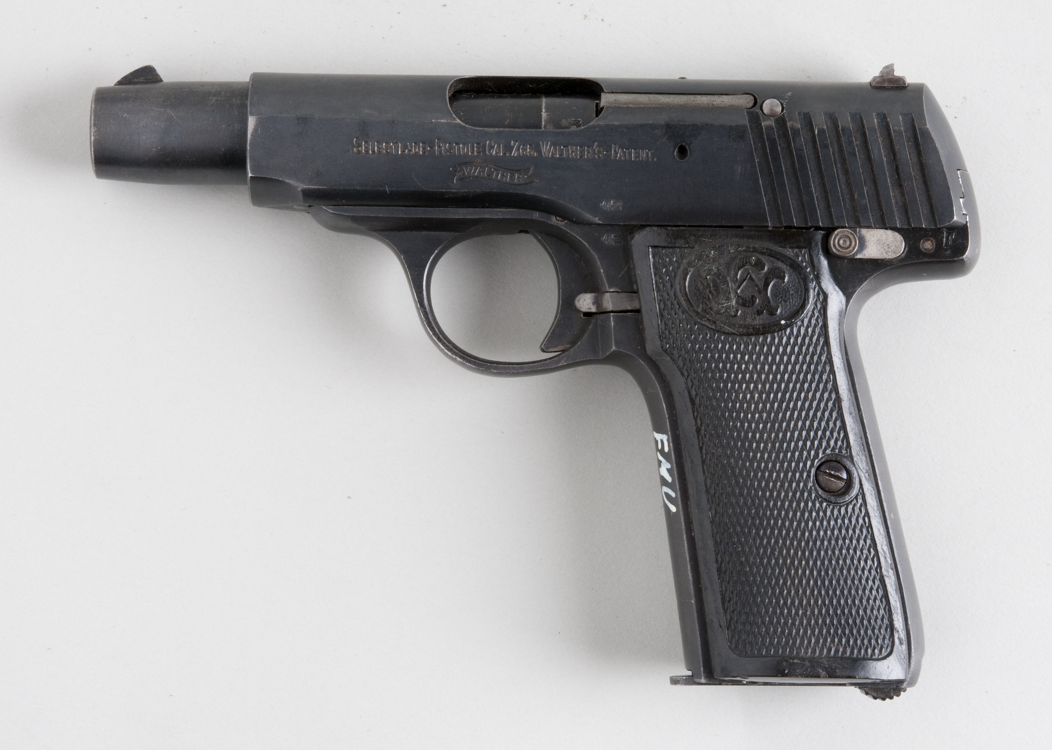 Walther mod 4 From flickr user handvapensamlingen - Pistols used in Norway.